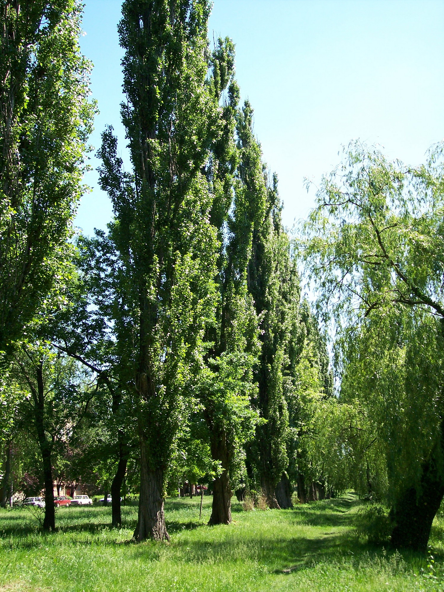 Black Poplars (Populus nigra) next to Élővíz-csatorna canal in Békés town (Hungary)